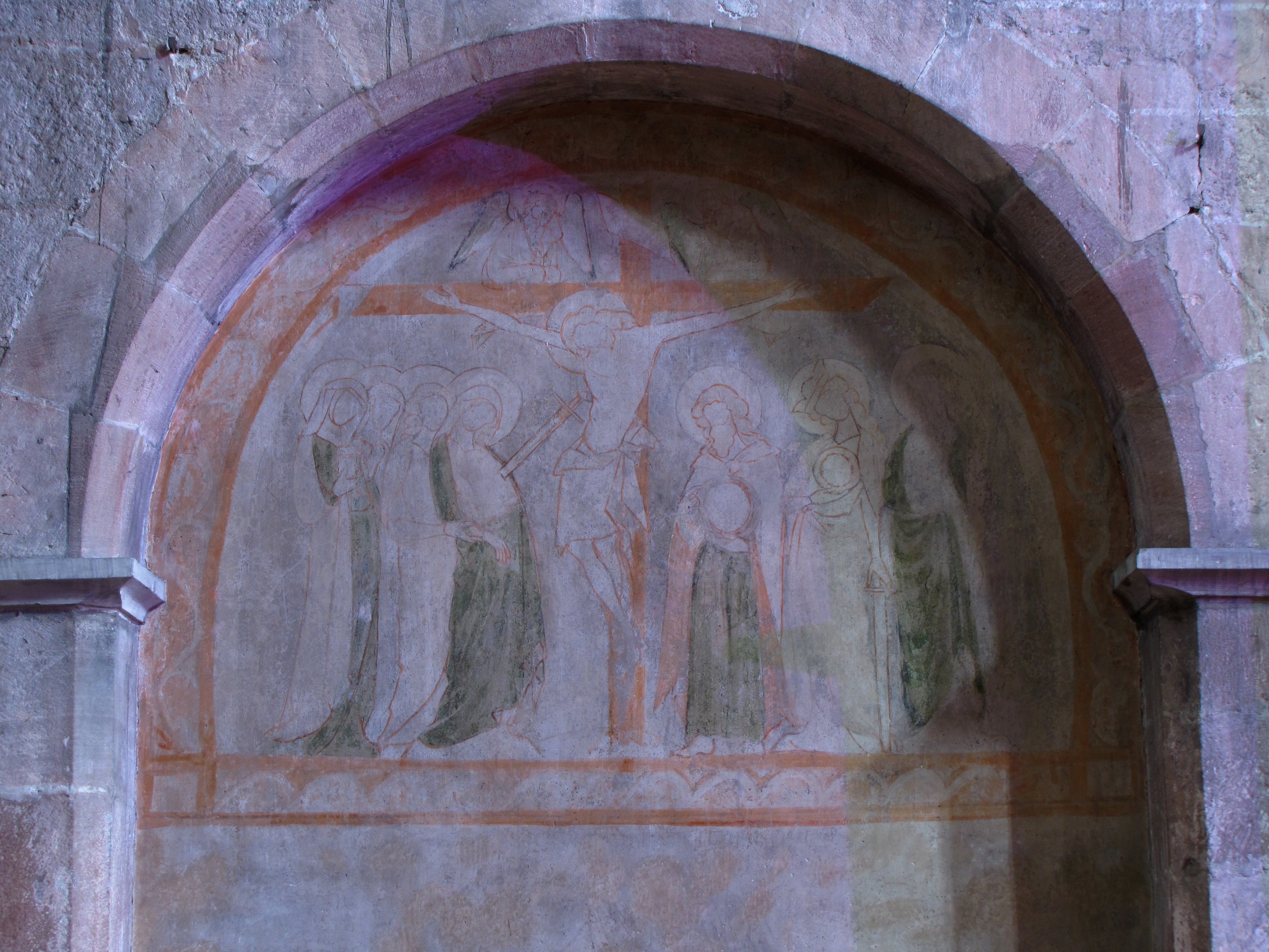 Alsace, Bas-Rhin, Sélestat, Église Saint-Georges (PA00084978, IA00124588): Transept nord. Peinture monumentale "Crucifixion" (XIVe): This object is classé Monument Historique in the base Palissy, database of the French furniture patrimony of the French ministry of culture, under the references PM67000313 and IM67008873.